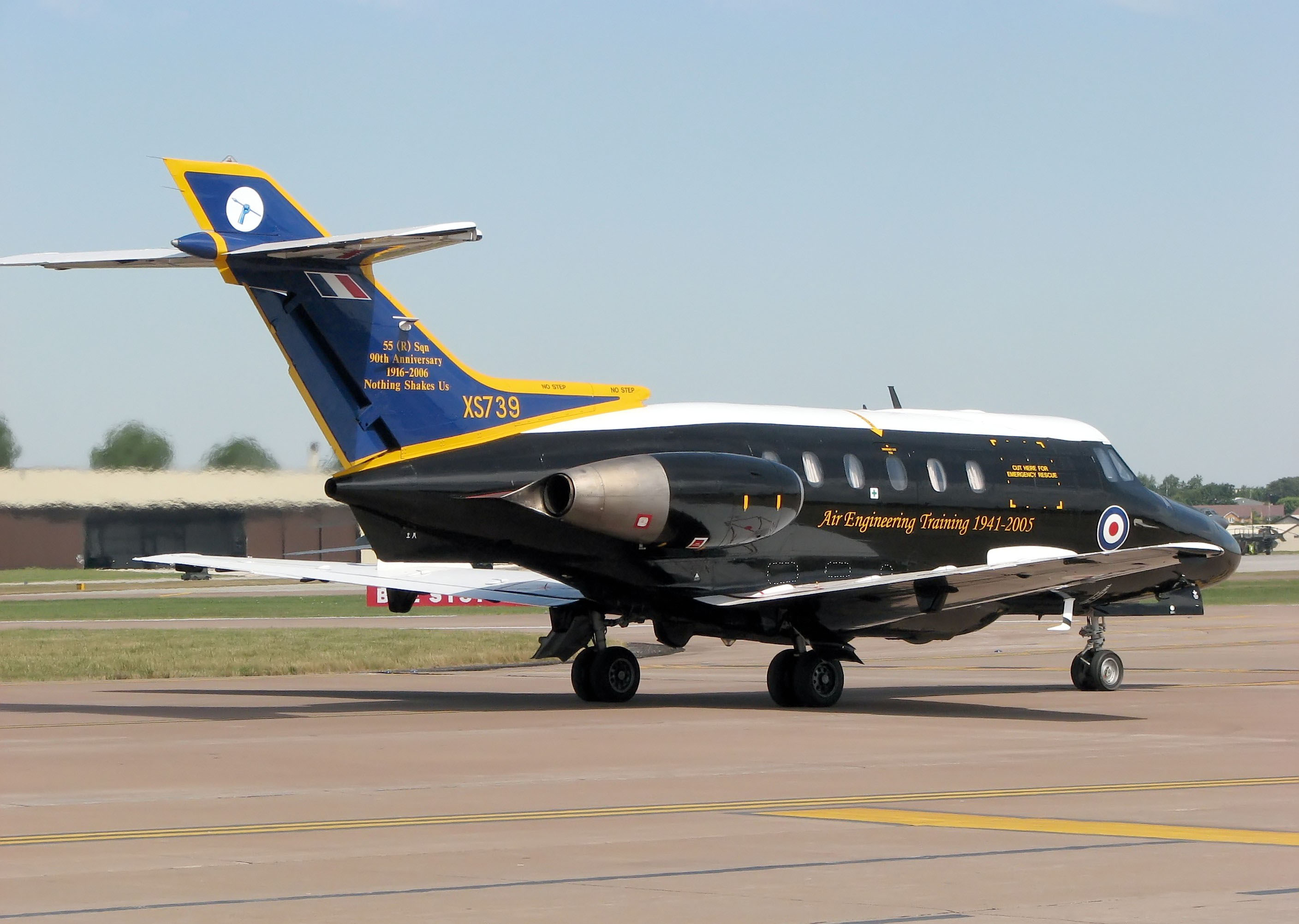 RAF Hawker Siddeley Dominie (identifier XS-739) taxiing for takeoff at the Royal International Air Tattoo, RAF Fairford, Gloucestershire, England. Photographed by Adrian Pingstone on July 17th 2006 and released to the public domain.